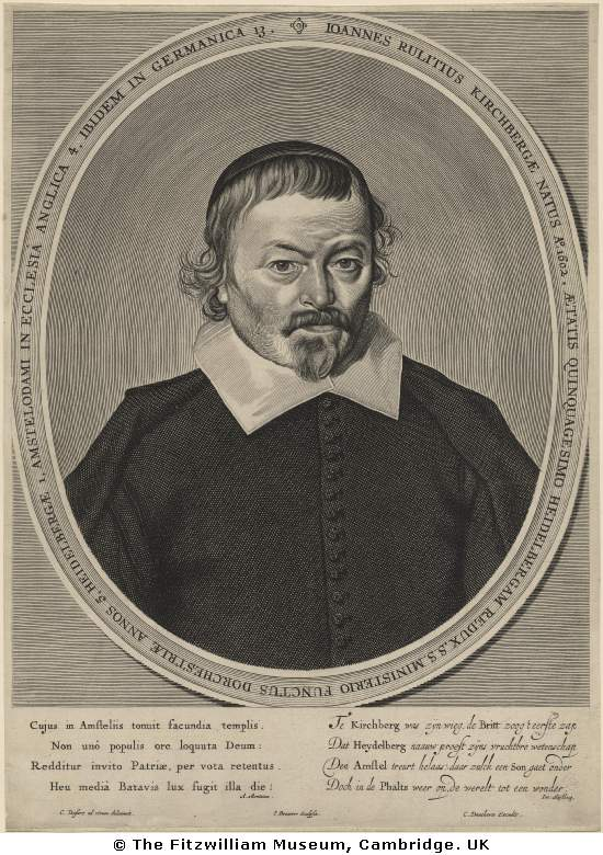 Portrait of Jan Rulitius de Kirchberg (1602–1666), German Protestant minister.